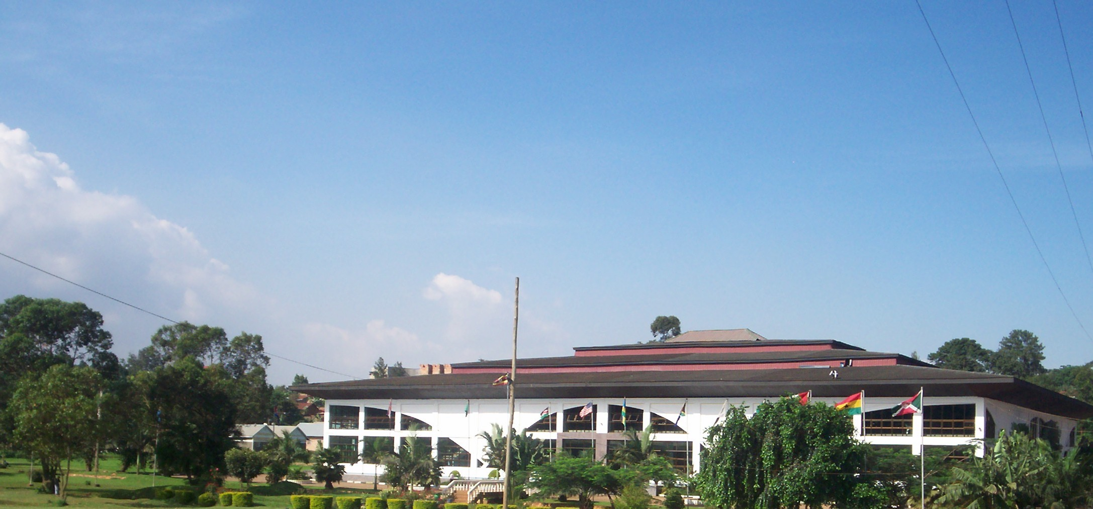 Miracle Centre Cathedral building, Kampala